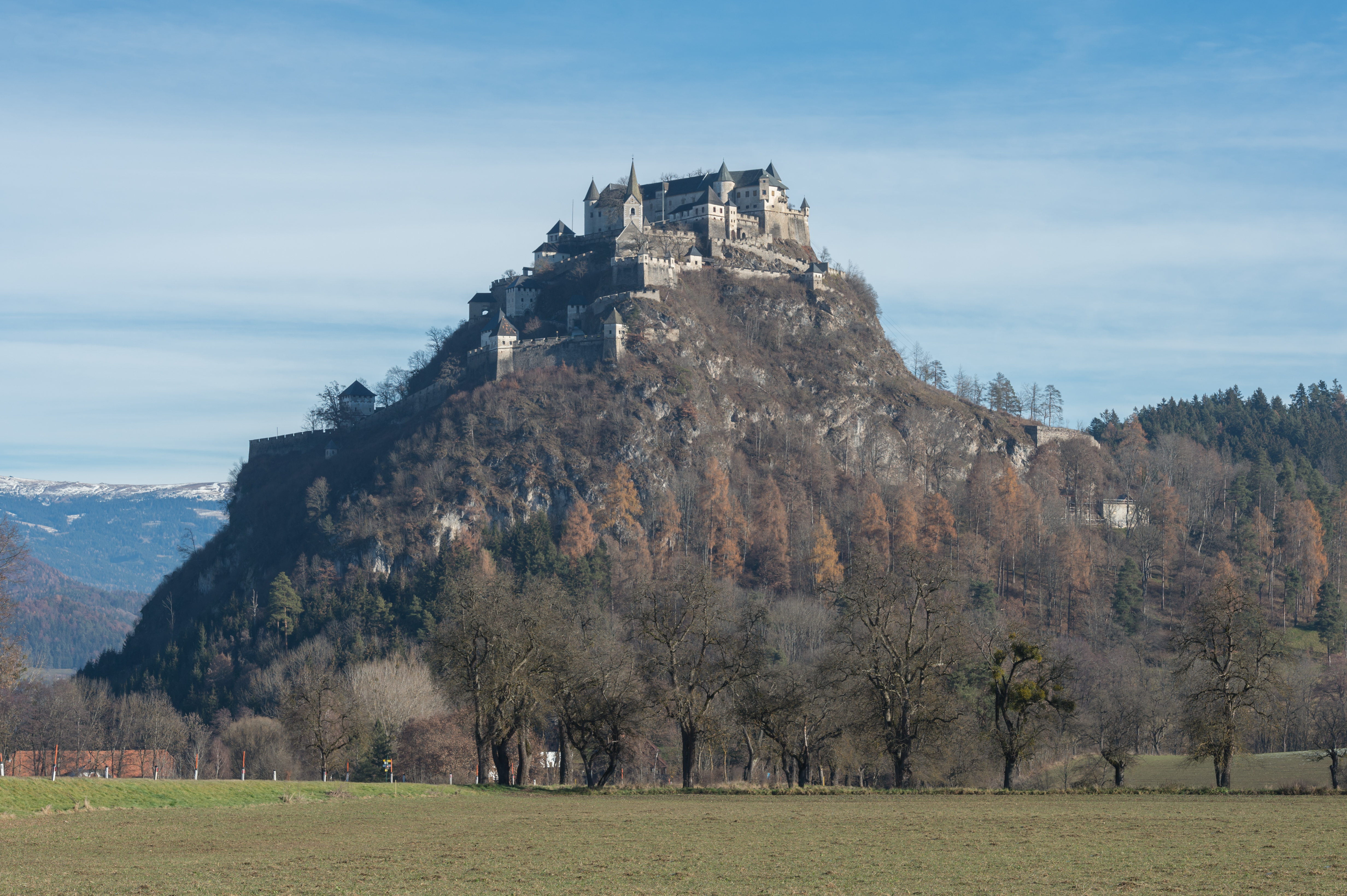 Castle Hochosterwitz, municipality Sankt Georgen am Laengsee, district Sankt Veit, Carinthia, Austria, EU